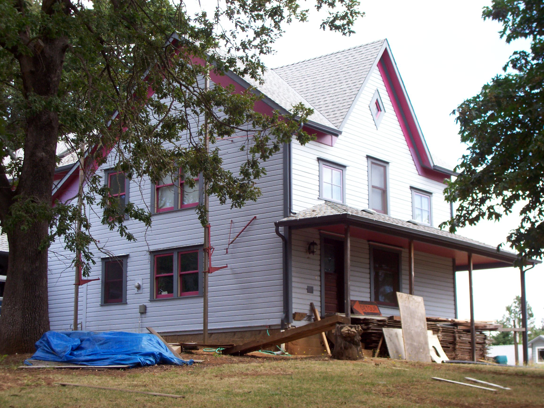 George W. Bethers House in Philomath Oregon. Listed on the National Registor of Historic Places.